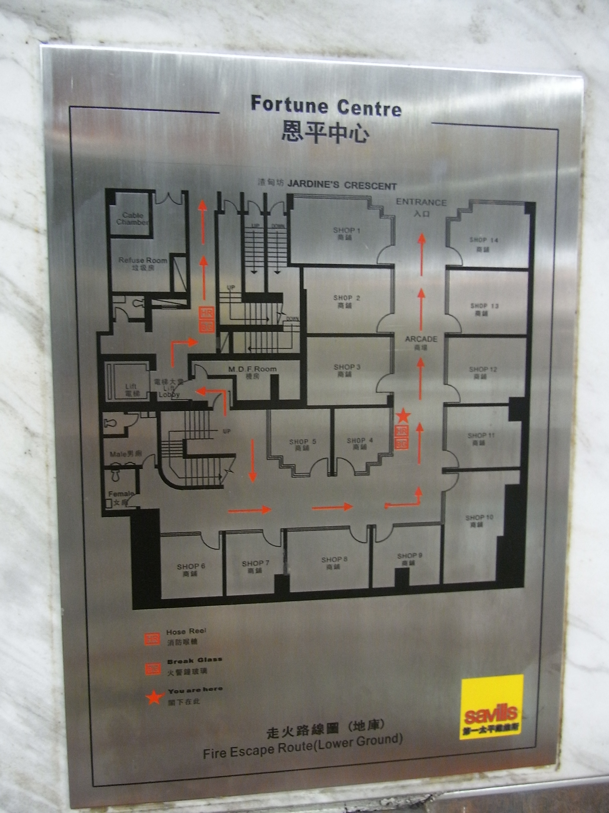 Fortune Centre at Jardine's Crescent, Causeway Bay, Hong Kong